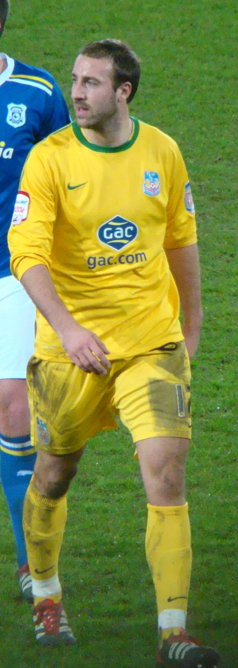 Glenn Murray playing for Crystal Palace in Football League Cup Semi-final against Cardiff City.